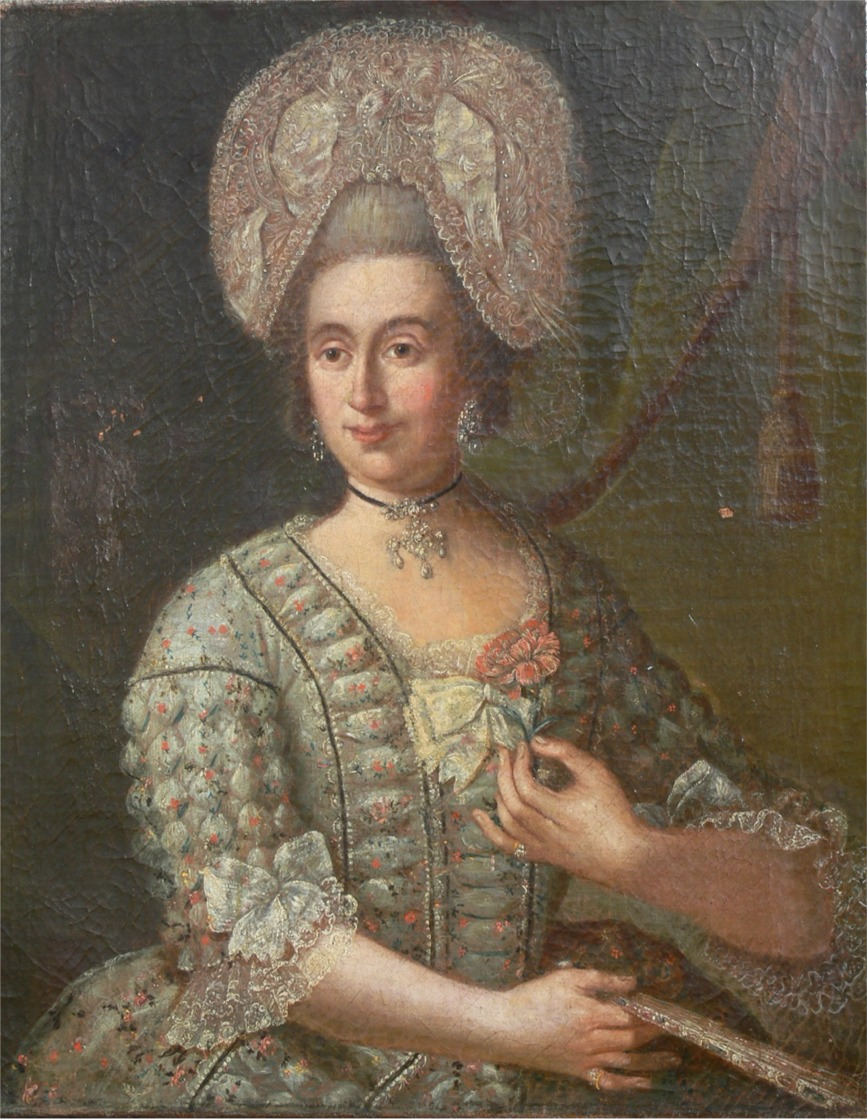 1700-1781, donator of organ in St. Ignaz, Mainz/Germany, oil painting, family property